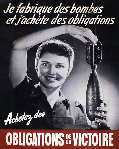 "I'm making bombs and buying bonds! - Buy Victory Bonds." World War II poster from Canada.